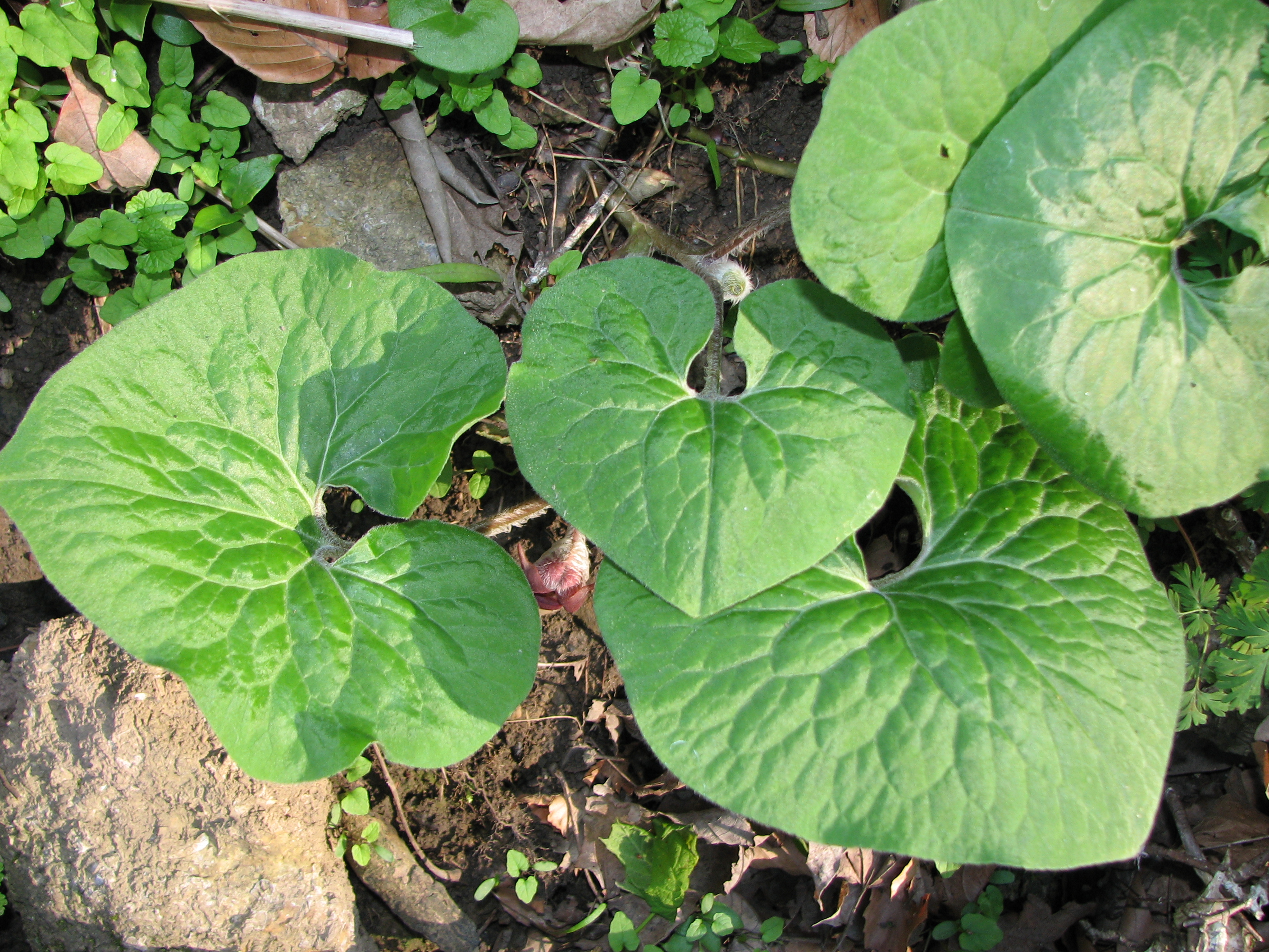 Leaf and flower view of Asarum canadense, taken in the Mount Airy Forest City Park of Cincinnati, OH..